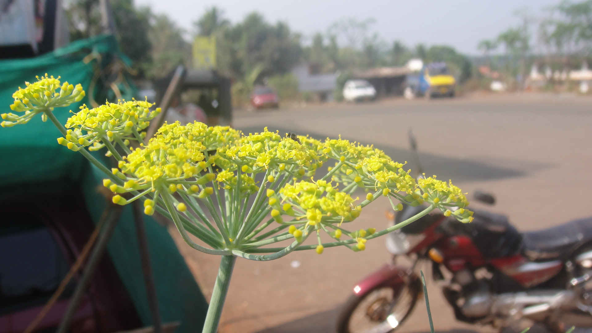 Flower of Fennel